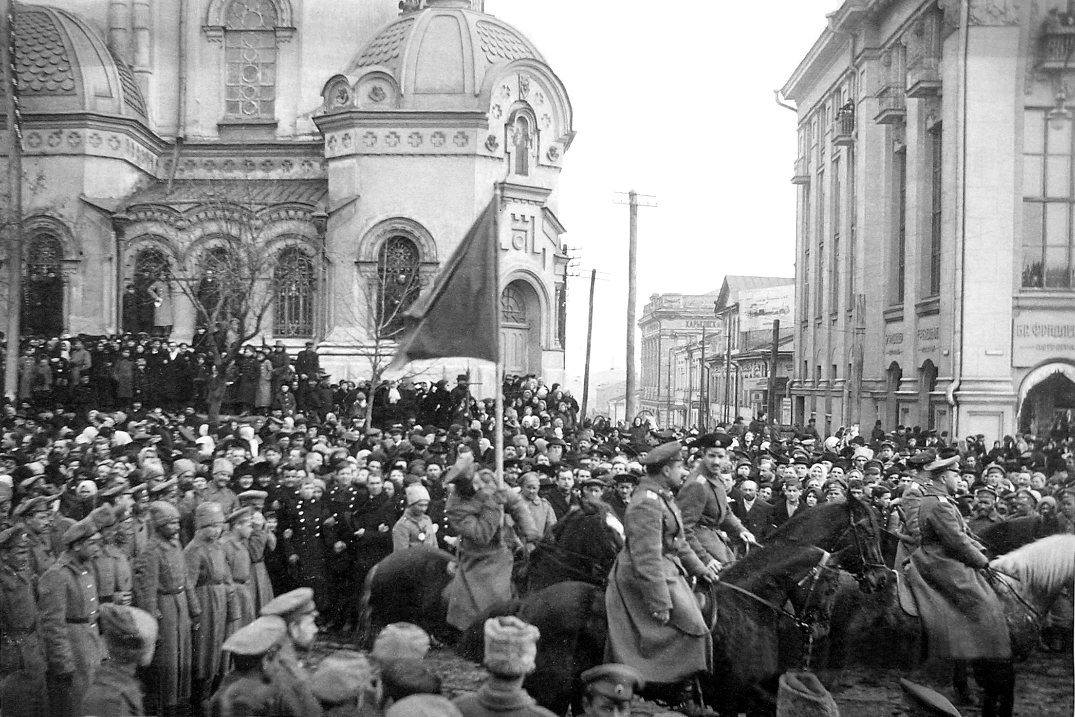 Demonstrac Febr. Revolution in Kharkov, 1917.